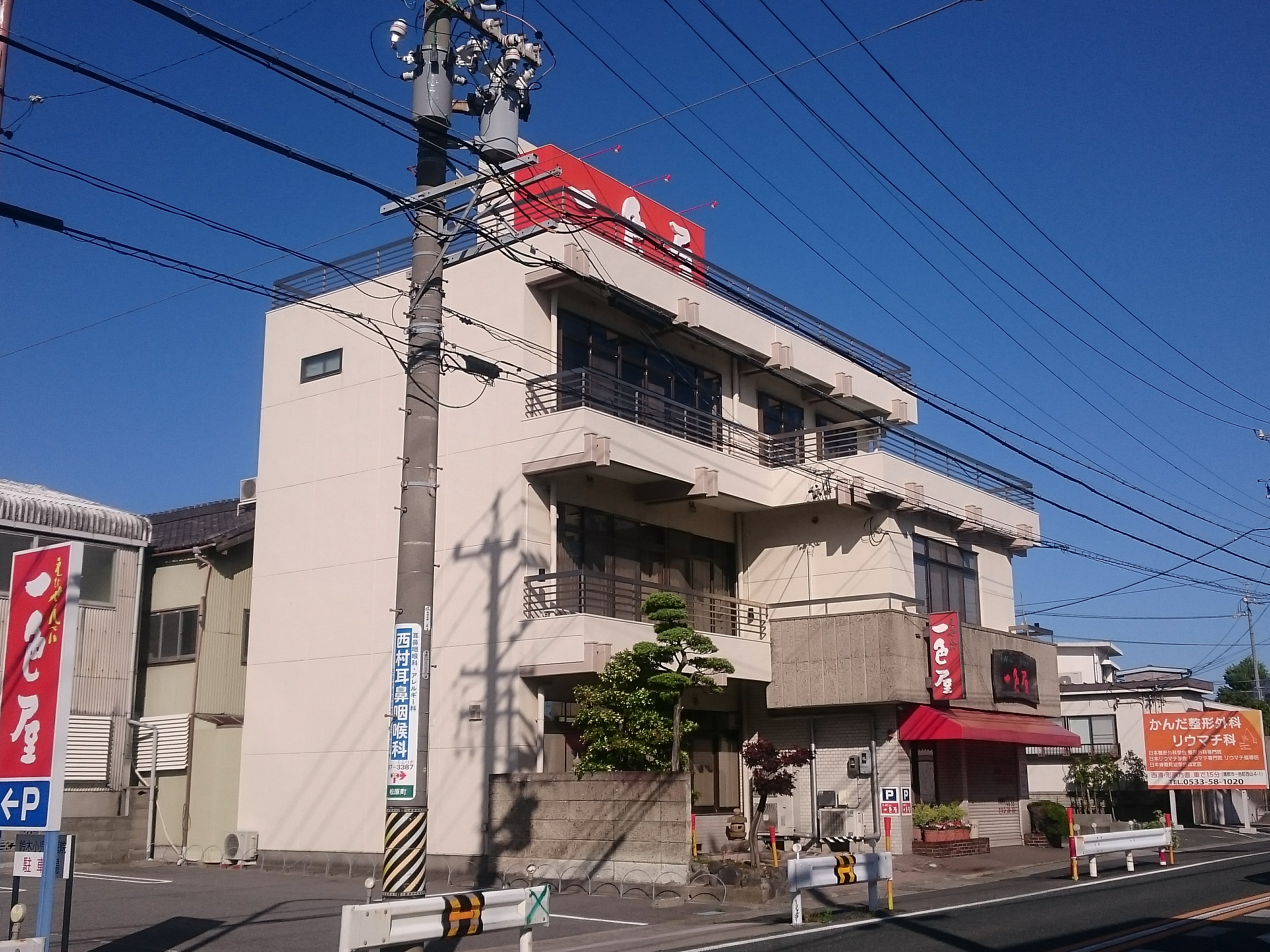 Isshikiya (一色屋) headquarters, located at 4-21 Matsubara-cho, Gamagori, Aichi, Japan